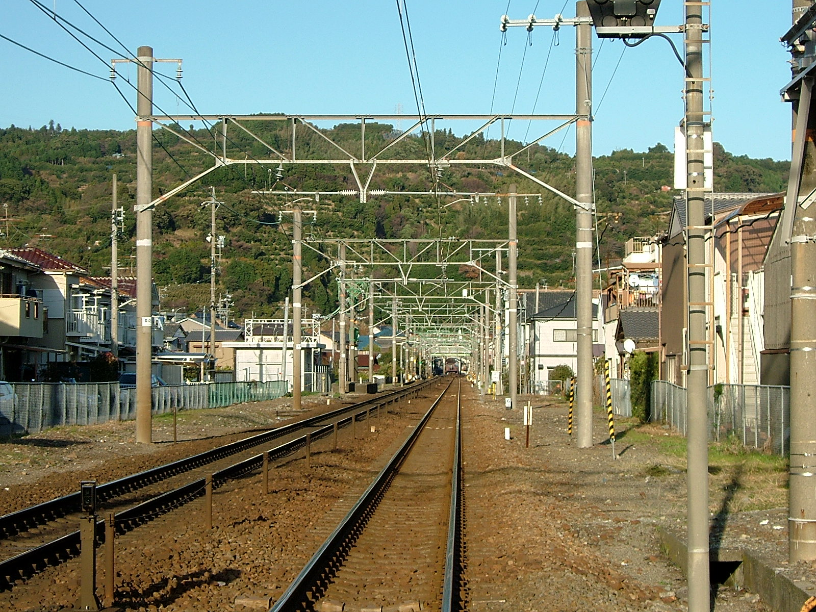 Former site of Sodeshi Station on Tokaido Main Line